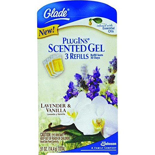 a picture of a Glade PlugIns product.